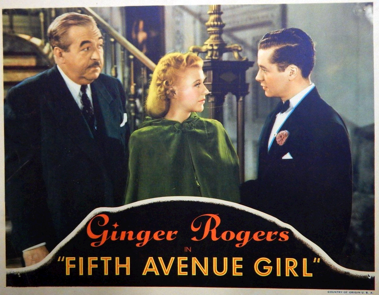 Lobby card from the American comedy film Fifth Avenue Girl (1939).